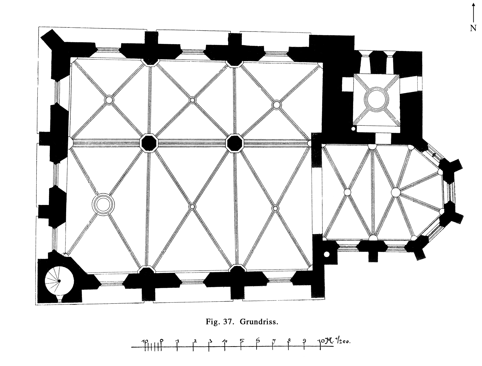 Frankfurt on the Main: Old Saint Nicholas Church, floor plan